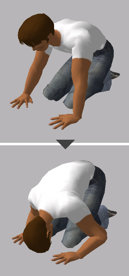 Dogeza (A Japanese manner which shows reverence for high-class persons and is often used for a deep apology)